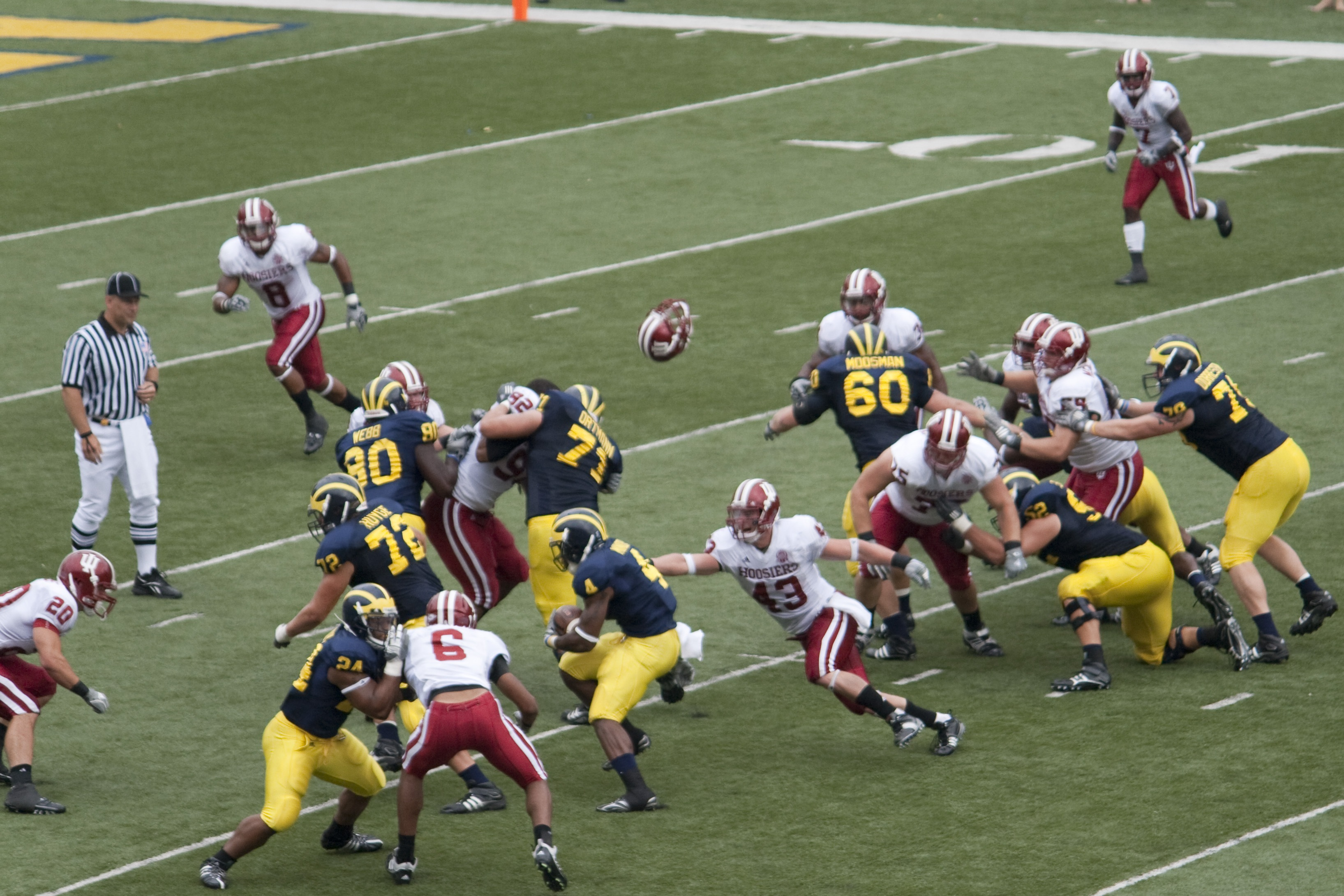 w:2009 Michigan Wolverines football team against the 2009 Indiana Hoosiers football team